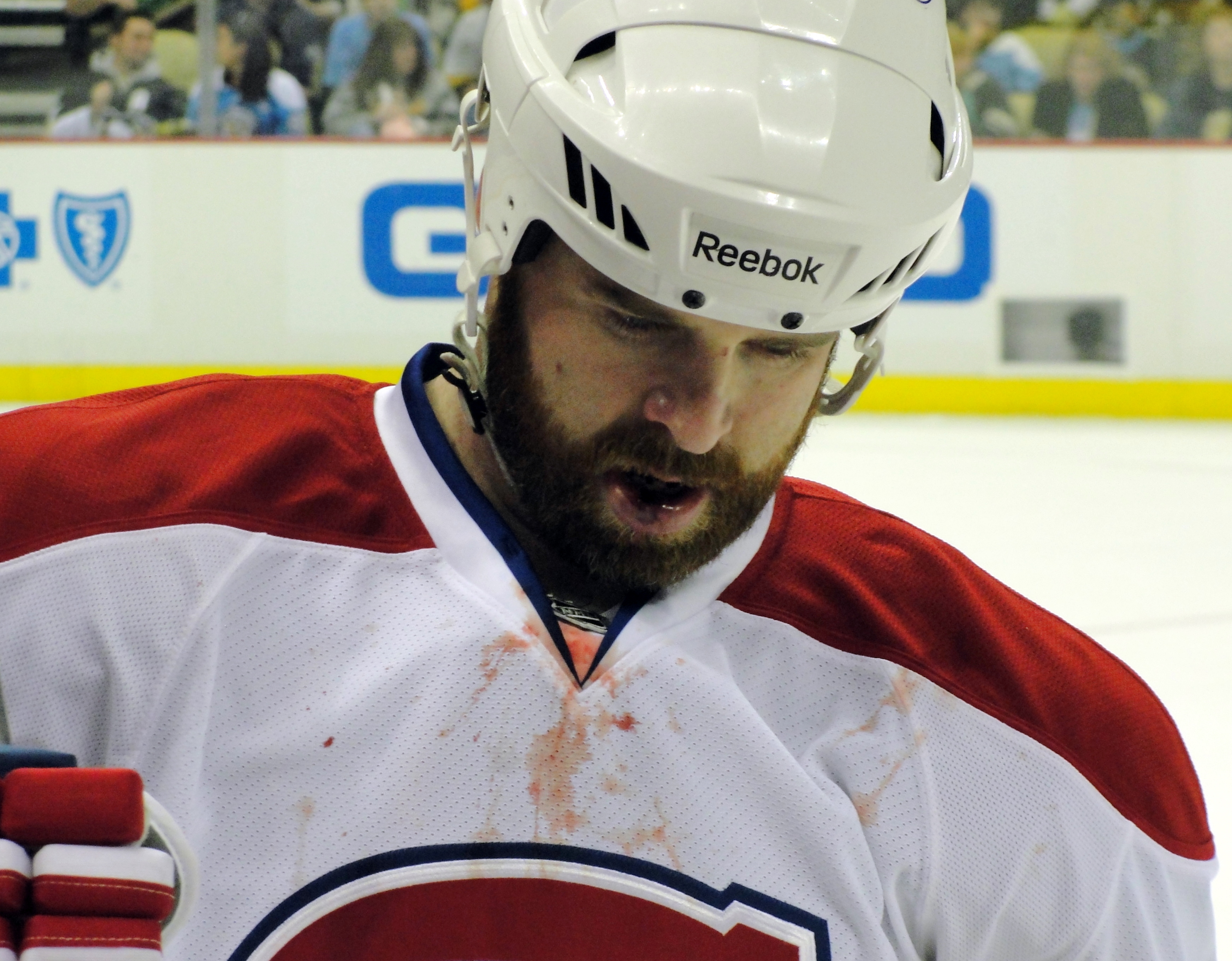 Montreal Canadiens defenseman Paul Mara appears to have gotten the worst of it in a fight with Max Talbot of the Pittsburgh Penguins, March 12, 2011 at Consol Energy Center in Pittsburgh, PA.